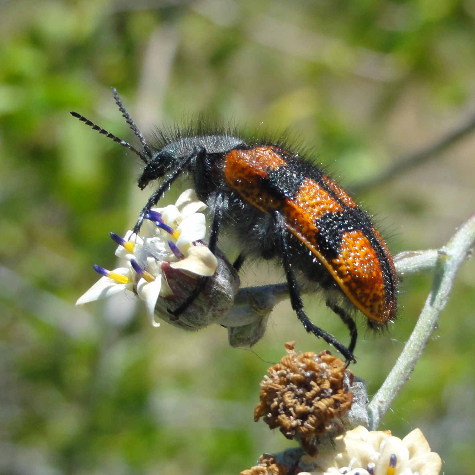 Astylus trifasciatus (known as Pololo común in Spanish vernacular), a species of beetle native to Chile, in Parque Natural Aguas de Ramón near Santiago, Chile.